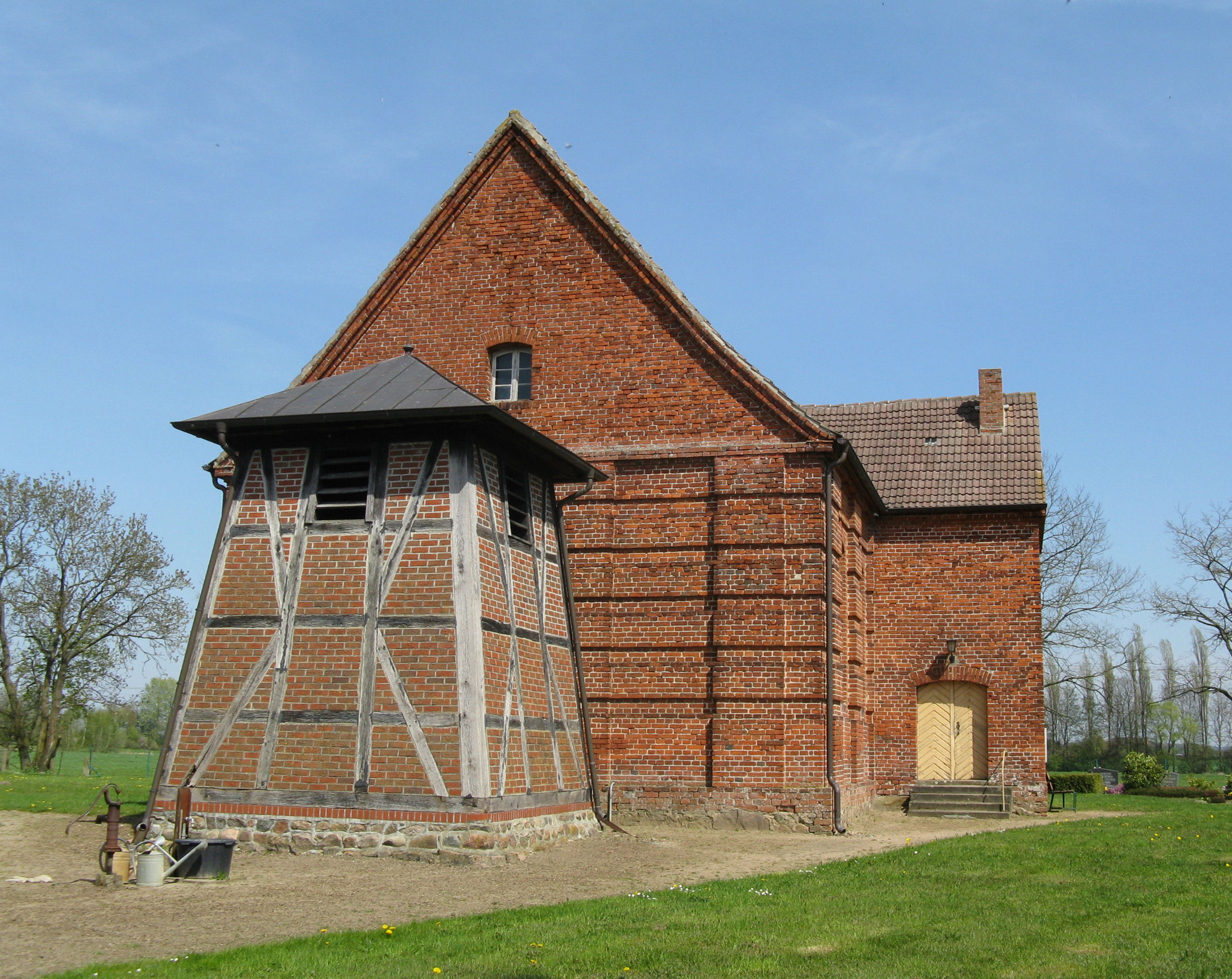 Church in Balow, Mecklenburg, Germany